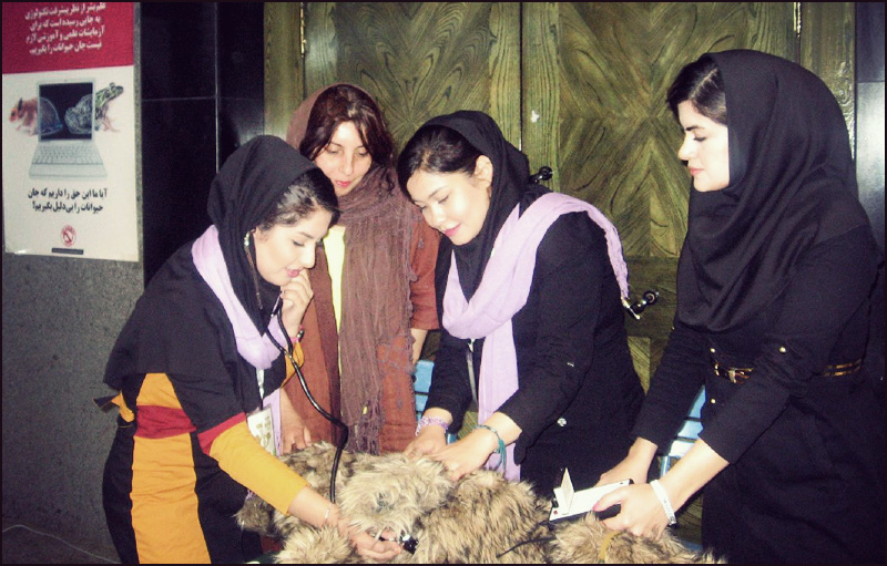 Academic presentation of alternatives to animal testing in veterinary education by Iranian Anti-Vivisection Association's members.